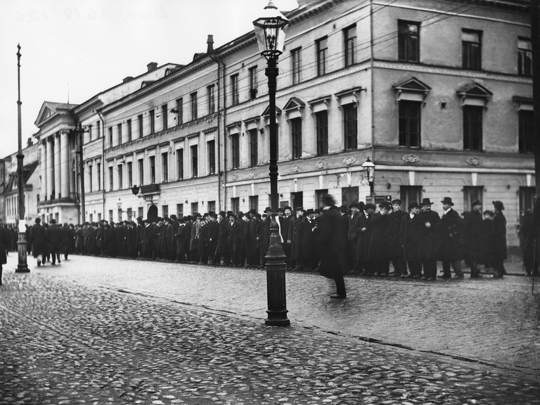 Red Guard at the Helsinki Senate Square during the 1905 General Strike